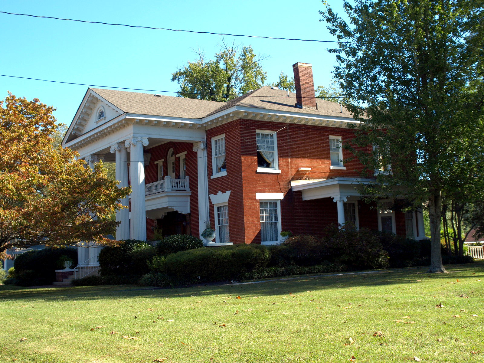 The Colonel O.R. Hood House in Gadsden, Alabama, listed on the National Register of Historic Places